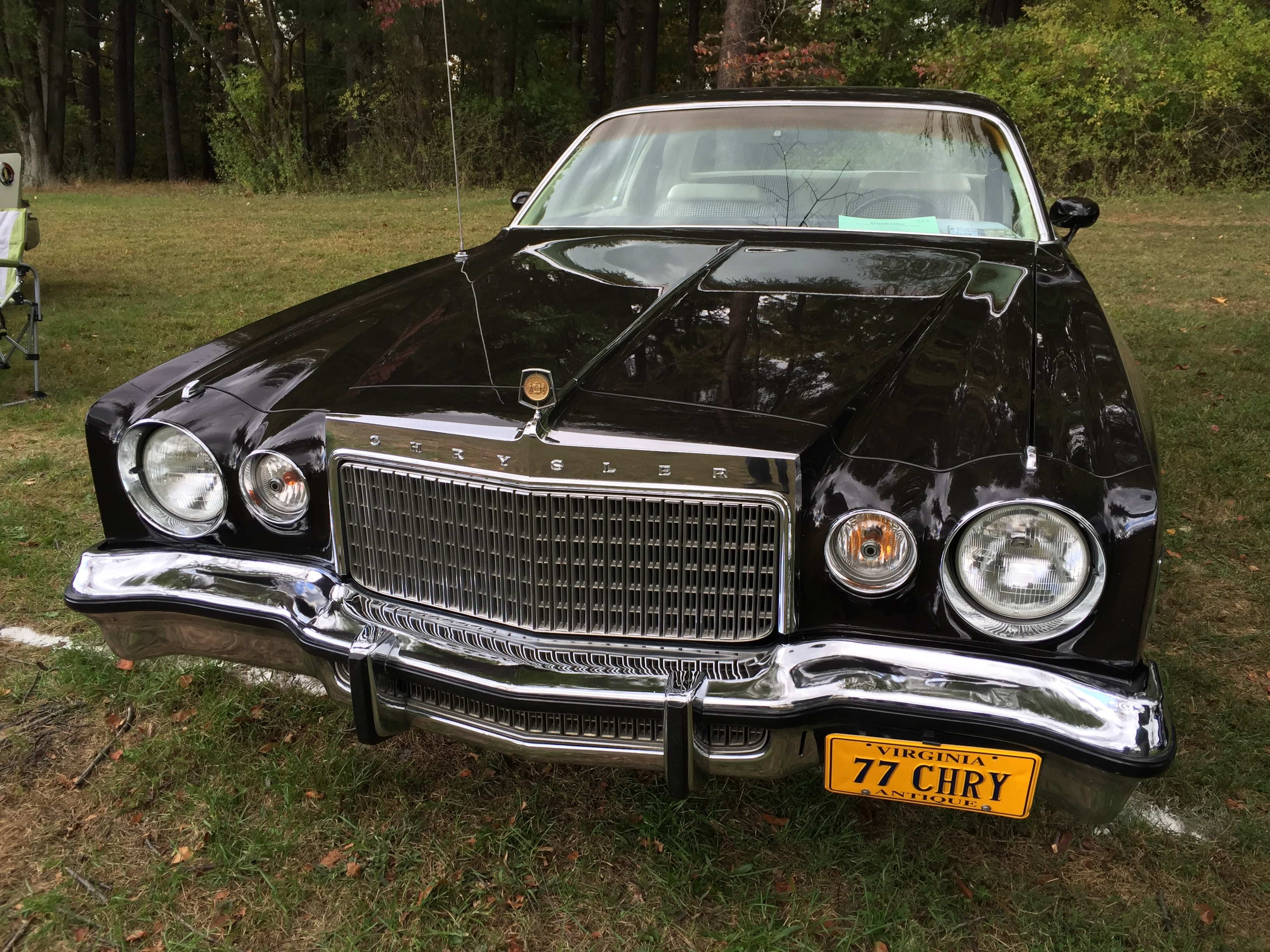 1977 Chrysler Cordoba (B-body), a "personal luxury" car. This Cordoba has the optional "Crown roof" that includes the padded vinyl cover and the over-the-top illuminated "opera" light (in addition to the standard "opera" window), as well as the special Checkmate upholstery for the interior. Picture taken during the 2015 Rockville Antique and Classic Car Show in Maryland.